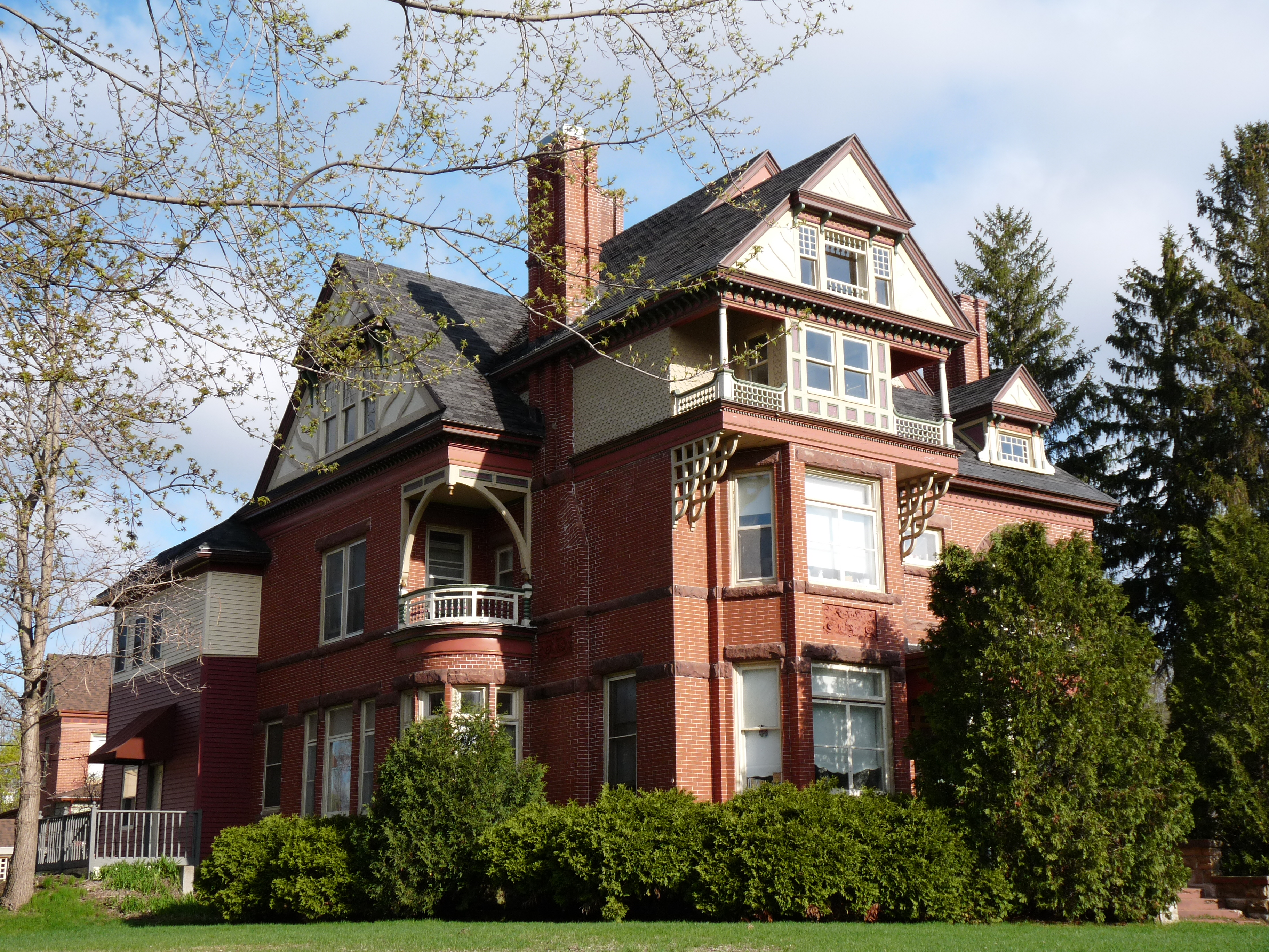 This Queen Anne house in Eau Claire, Wisconsin was built in 1888 by David Drummond, who started a meat-packing business, Eau Claire Gas and Light, a real estate business, and the Pioneer Furniture Company. This house was listed on the National Register of Historic Places in 1974.